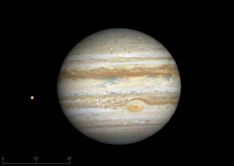 Jupiter and Io